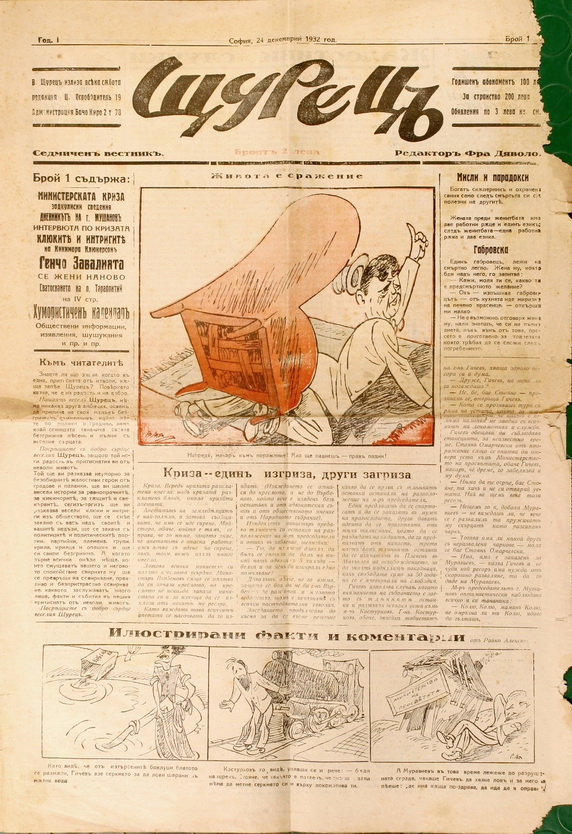 Shturets 24 December 1932